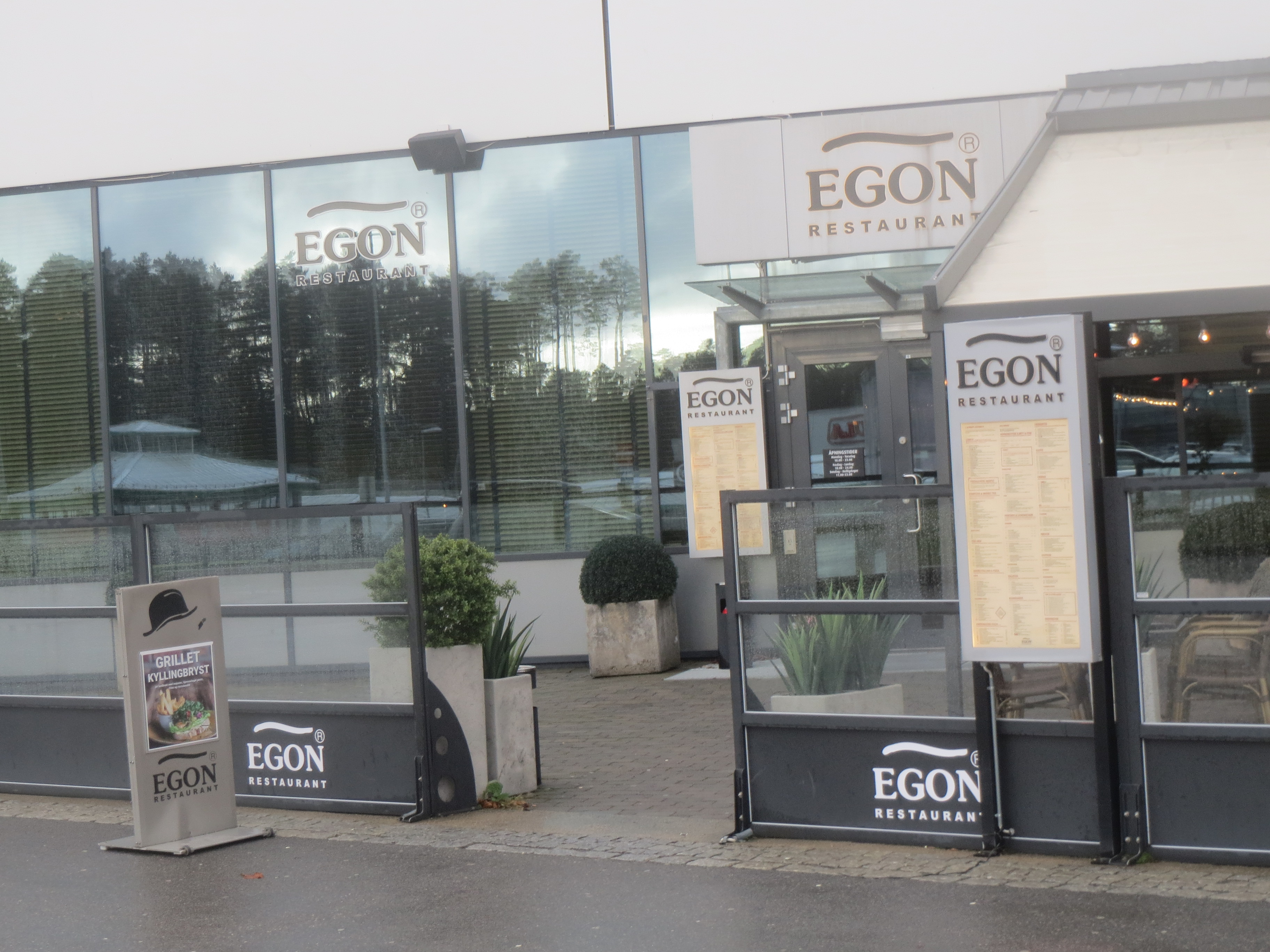 Egon restaurant, main entrance. Sørlandssenteret, Kristiansand, Norway